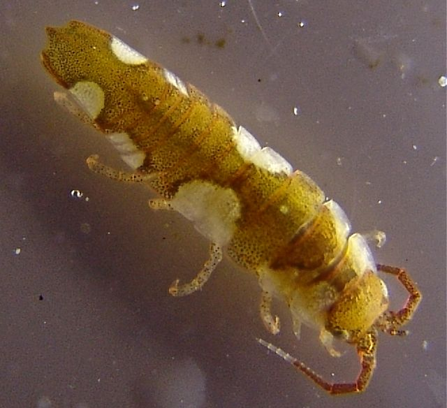 Idotea baltica - found on Greater Cumbrae, Scotland